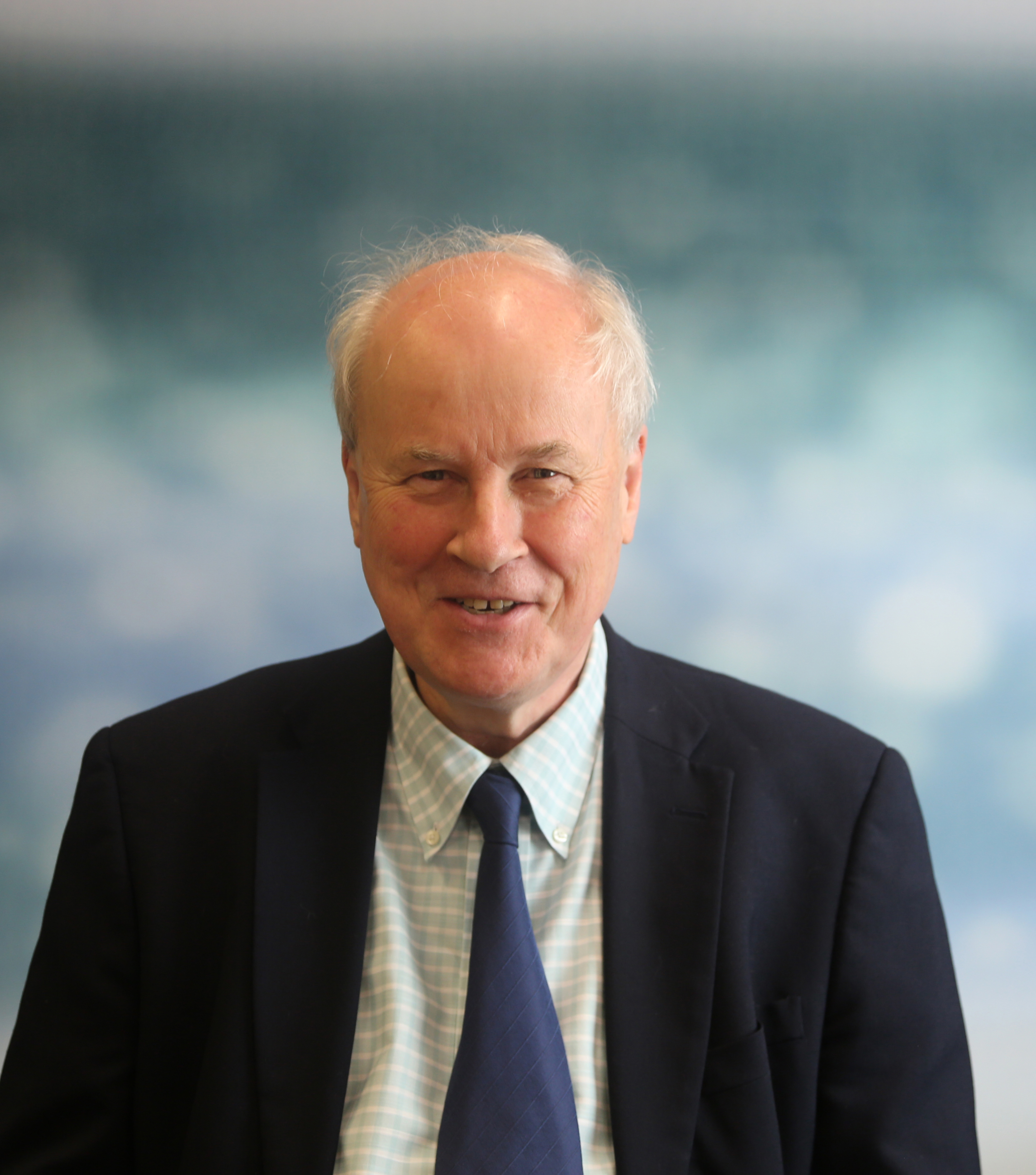 R_Keith_ELLIS_Portrait